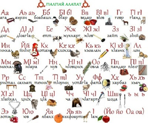 ingushetian alphabet